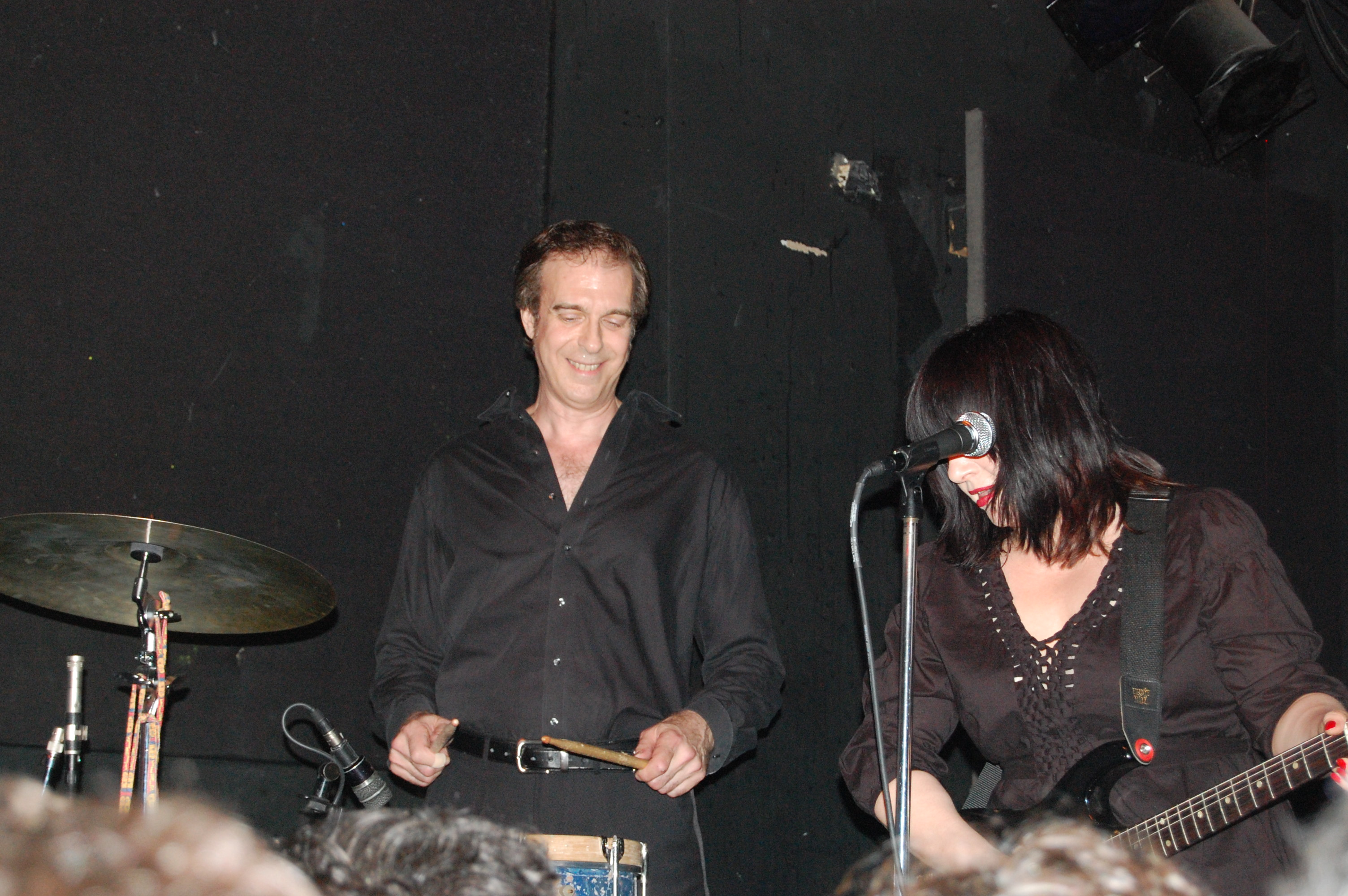 Jim Sclavunos and Lydia Lunch performing with Teenage Jesus and the Jerks at The Knitting Factory in Brooklyn, New York, United States.